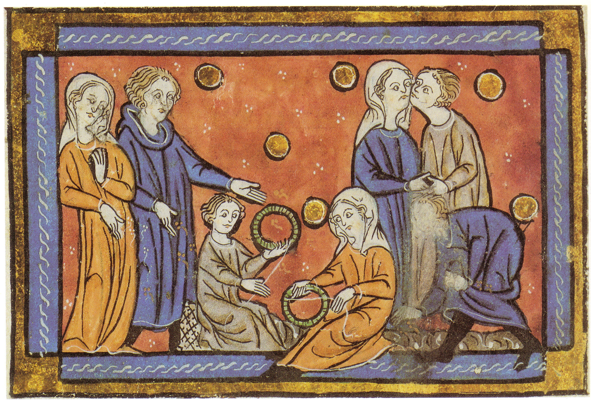 Picture of the Golden Age in Urbinus latinus 276, folium 52 recto. To verse 8455.